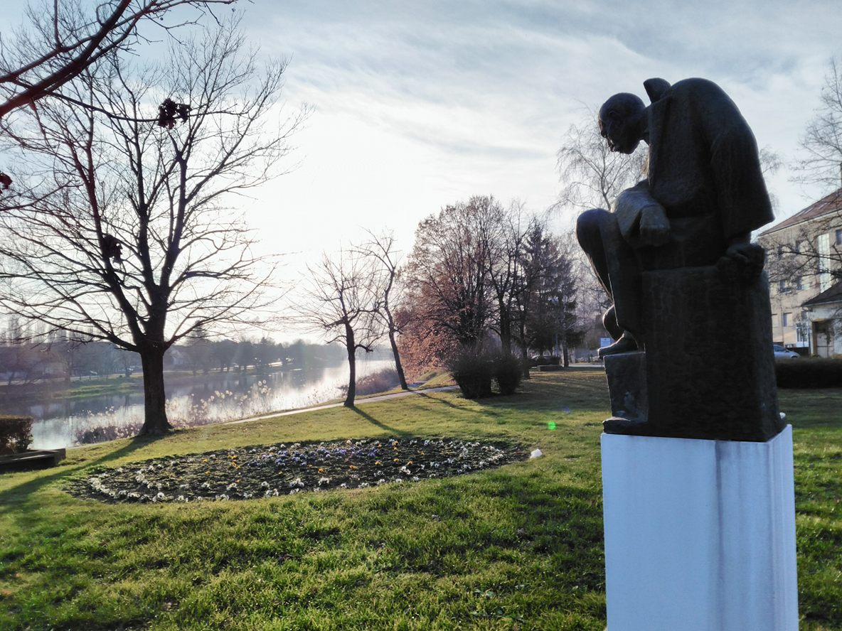 Josip Kozarac monument in Vinkovci.